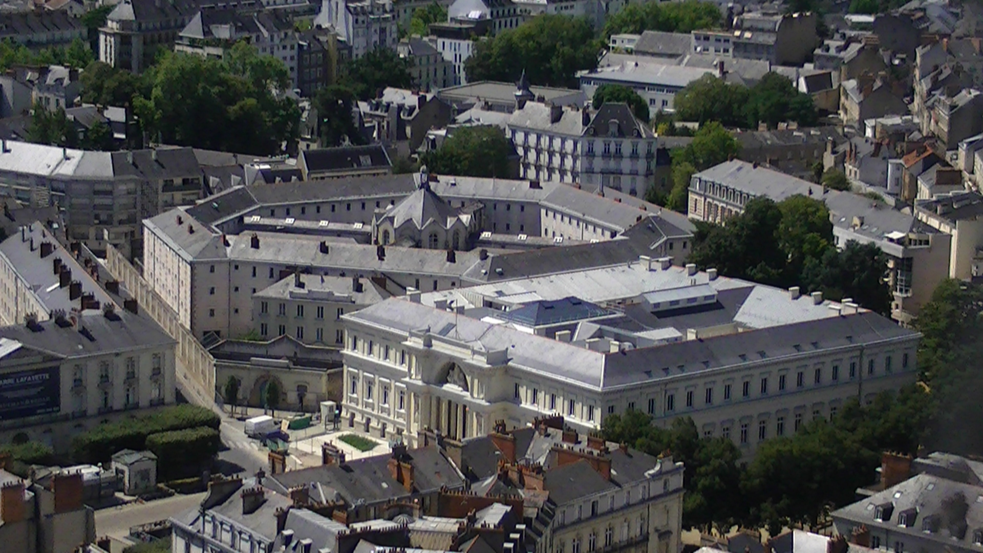 The Maison d'arrêt and the old Palais de justice at Place Aristide-Briand, Nantes, as seen from the observation deck of the Tour Bretagne